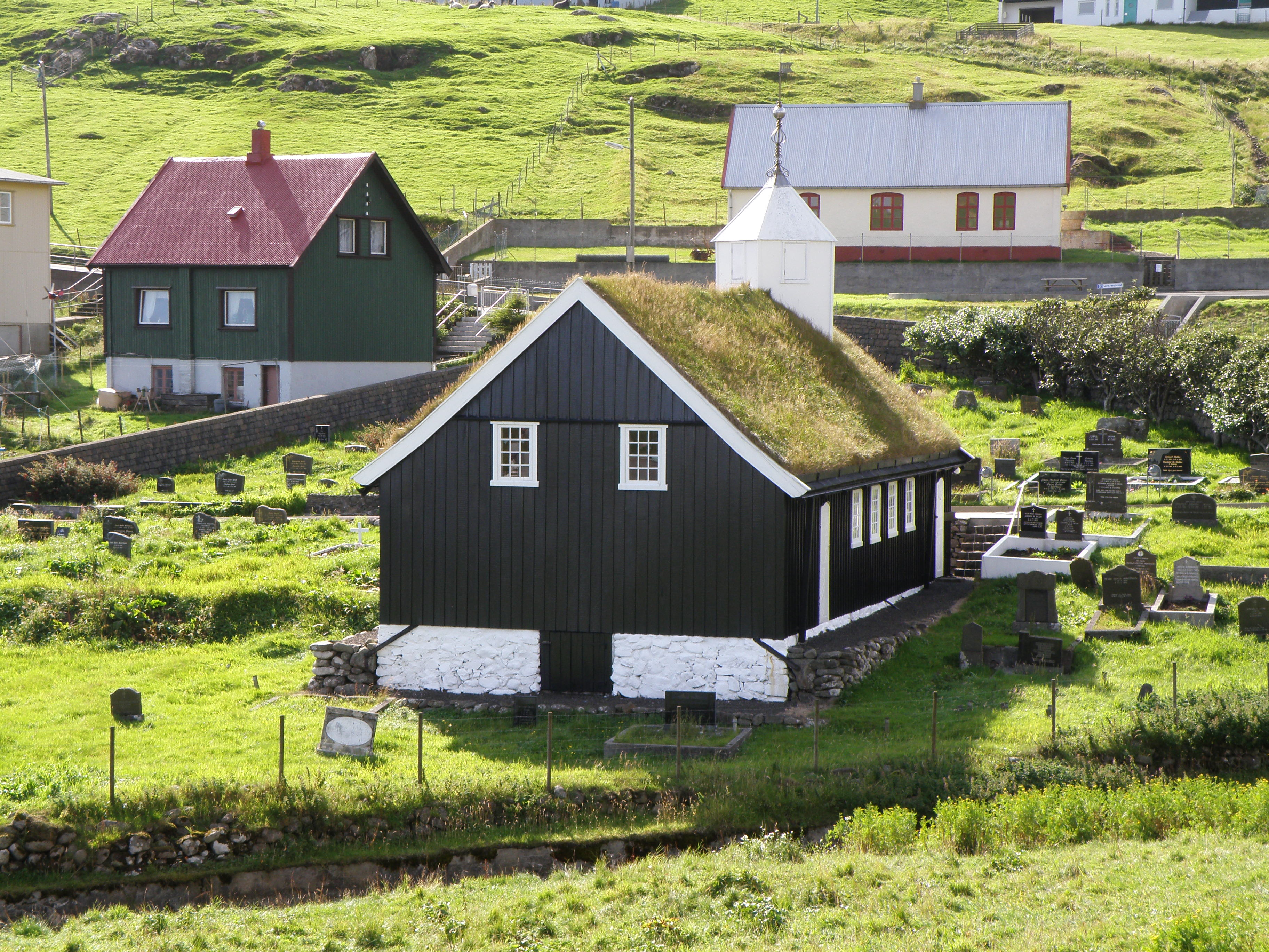 The church and the museum of Porkeri.. This photo was taken in Porkeri, Suðuroy, Faroe Islands on 22 August 2009., Porkeri, Faroe Islands.